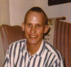 Writer and activist Malcom Gregory Scott photographed by his mother, Janis Mercer, at a family gathering on Christmas Eve 1995, in Reston, Virginia, as Scott was dying of AIDS.